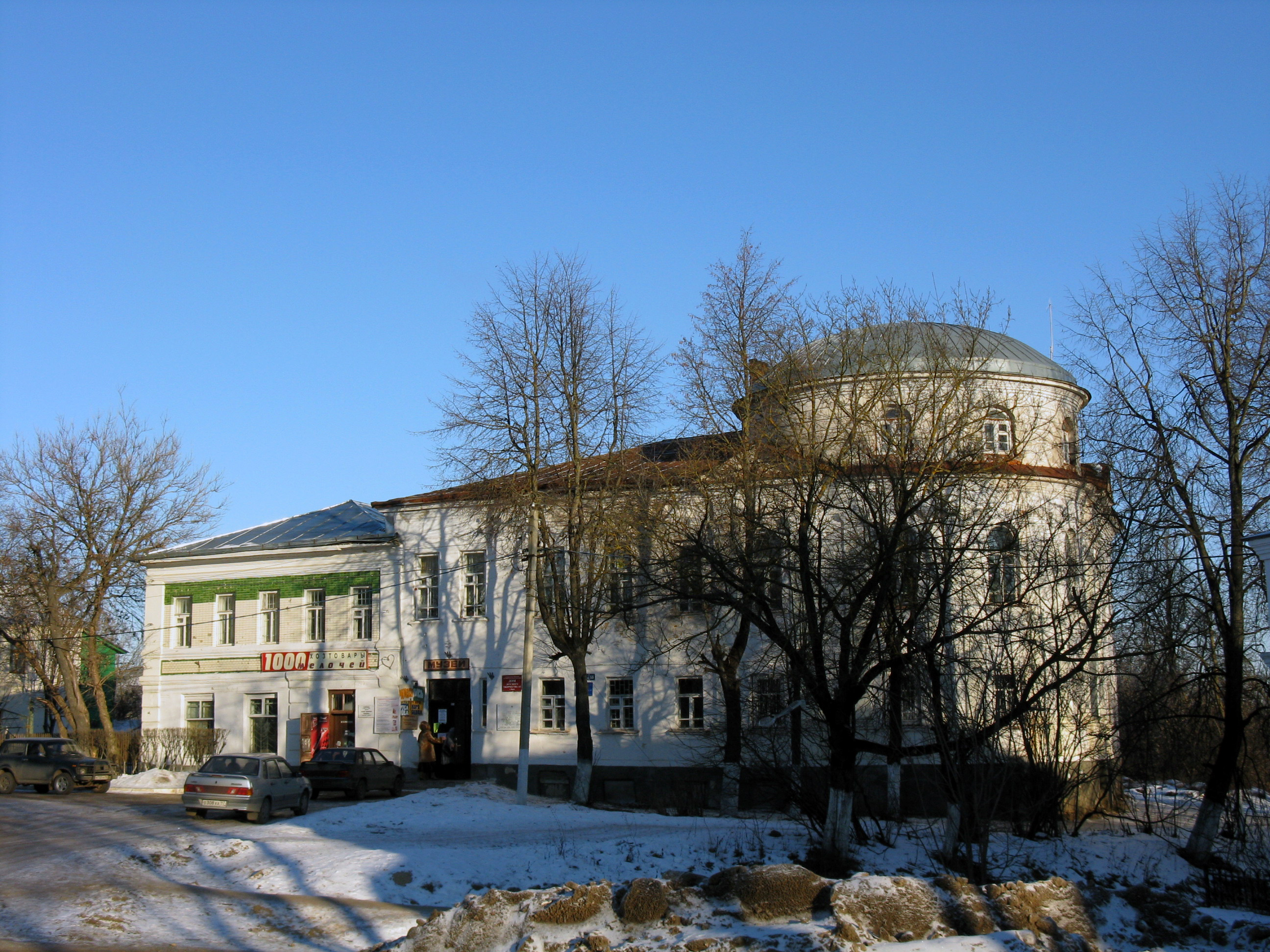 museum in Vereya (Moscow Oblast)